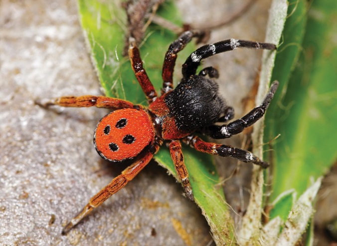 Eresus moravicus male (Dürnstein, Austria)